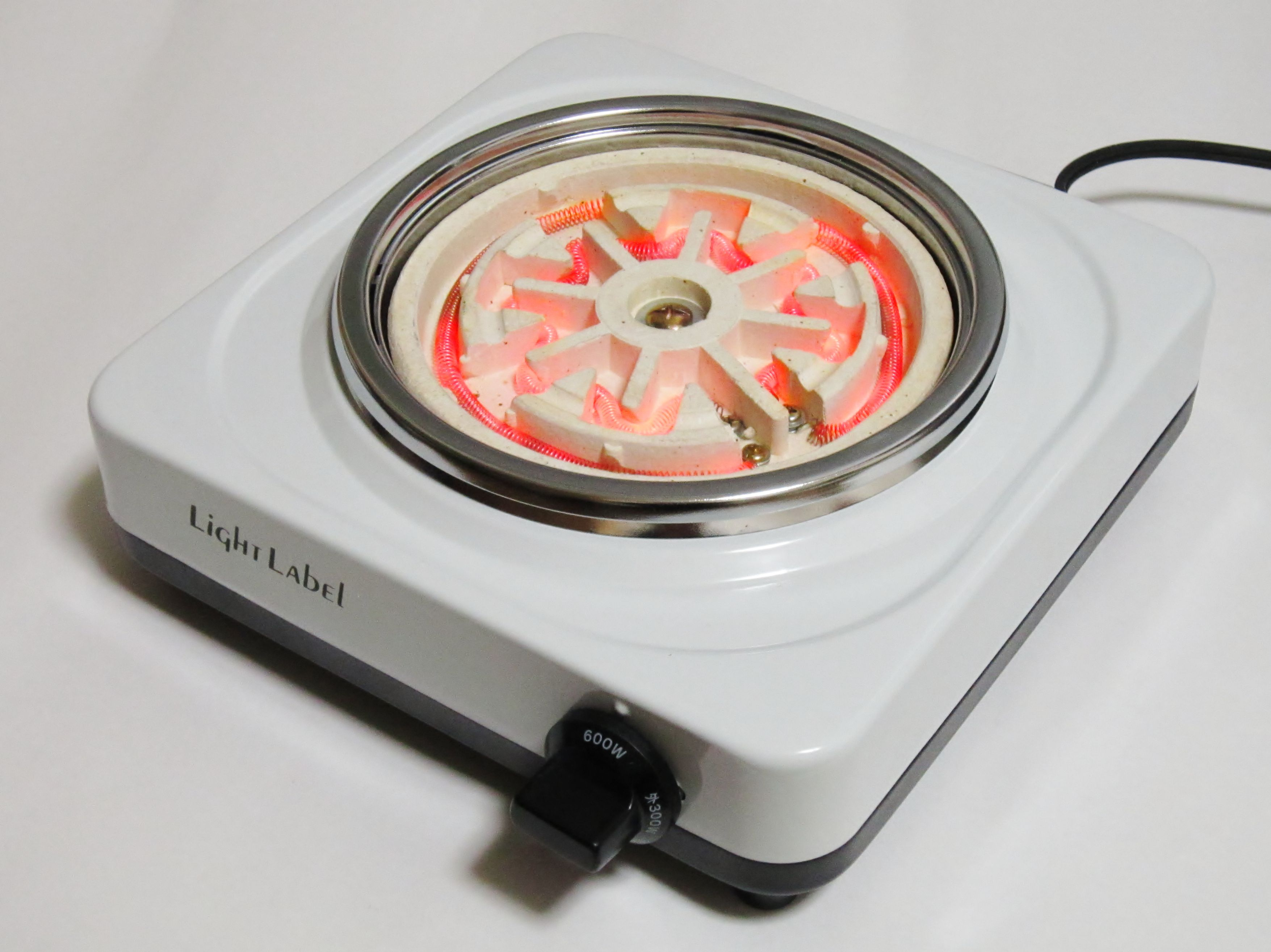 Light Label Electric tabletop burner KCK-L103.